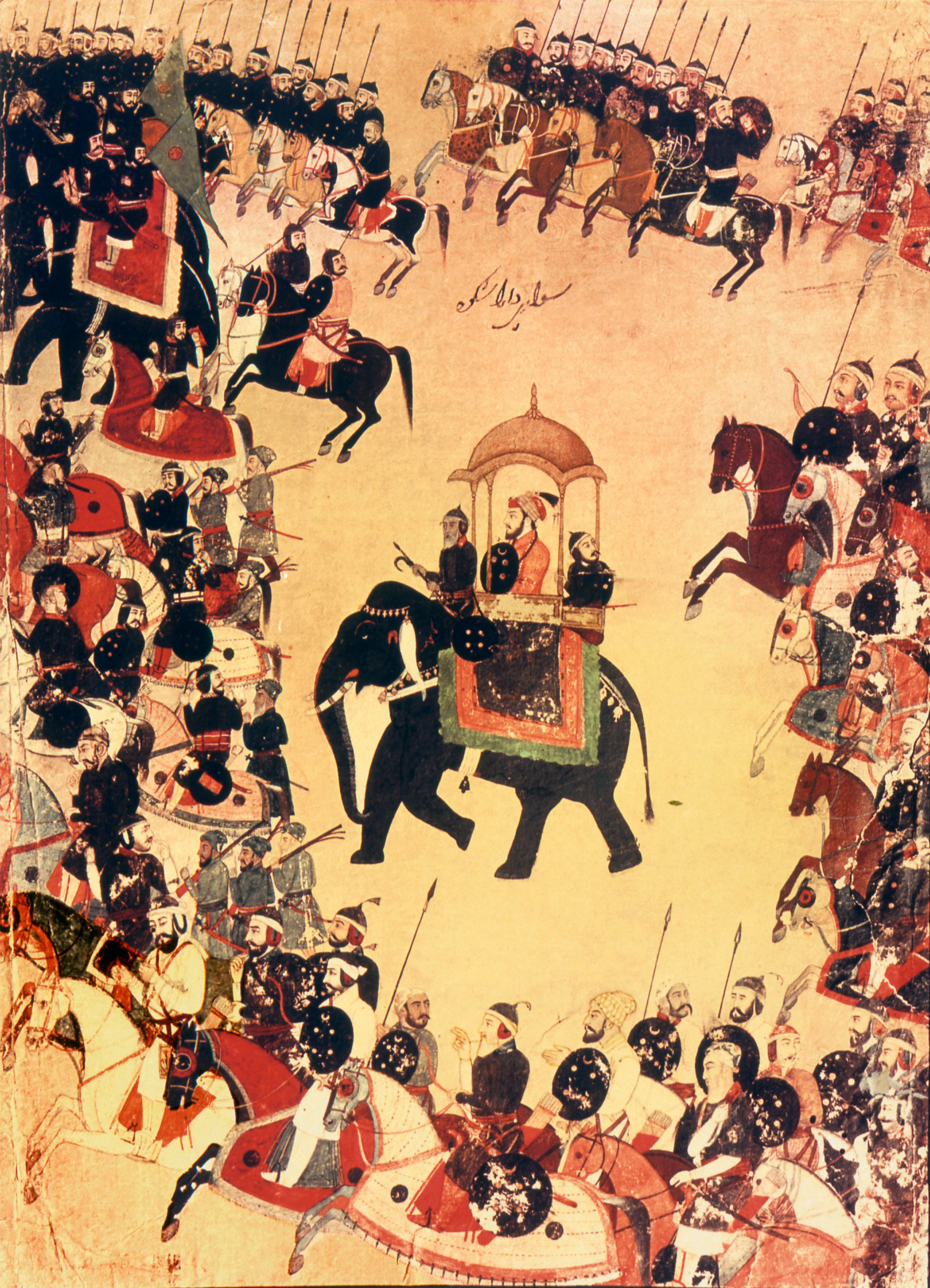 An illustration of Dara Shikuh, Shah Jahan's son, with his army. In 1657 Shah Jahan fell ill, precipitating a struggle for succession among his four sons. Dara Shikuh was the eldest, but was defeated and executed by the youngest, Aurangzeb, who claimed the throne in 1659. Source: Red Fort Museum, Delhi. Werner Forman Archive (Registration required).